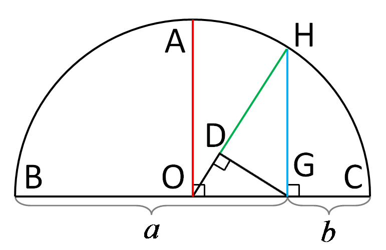 Geometrical representation of the Pythagorean means. a, b are two scalars. AO = Arithmetic mean of scalars 'a' and 'b'. GH = Geometric mean, HD = Harmonic mean.